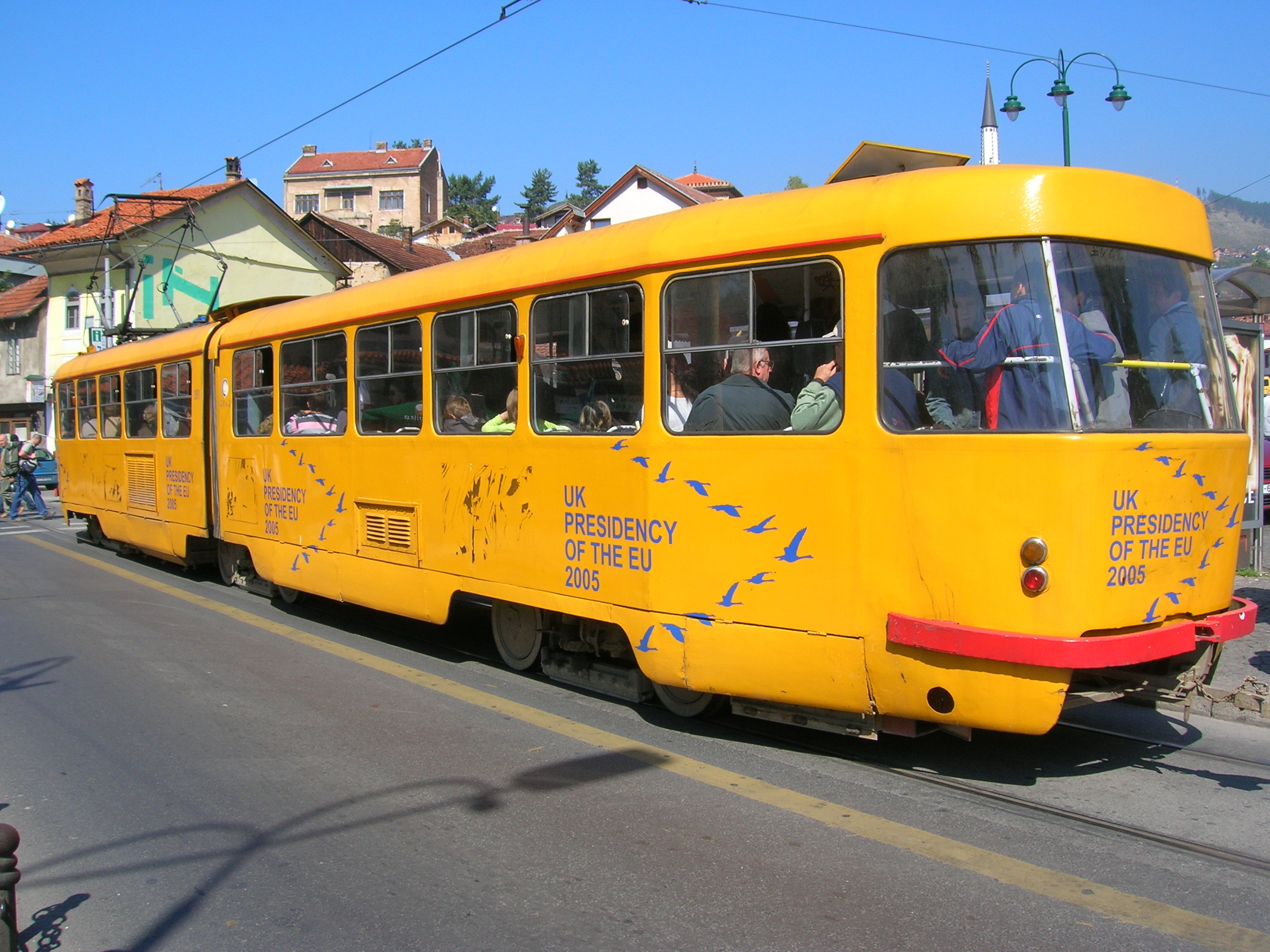 K2 tram in Sarajevo's streets with british EU presidency ad, Bosnia and Herzegovina